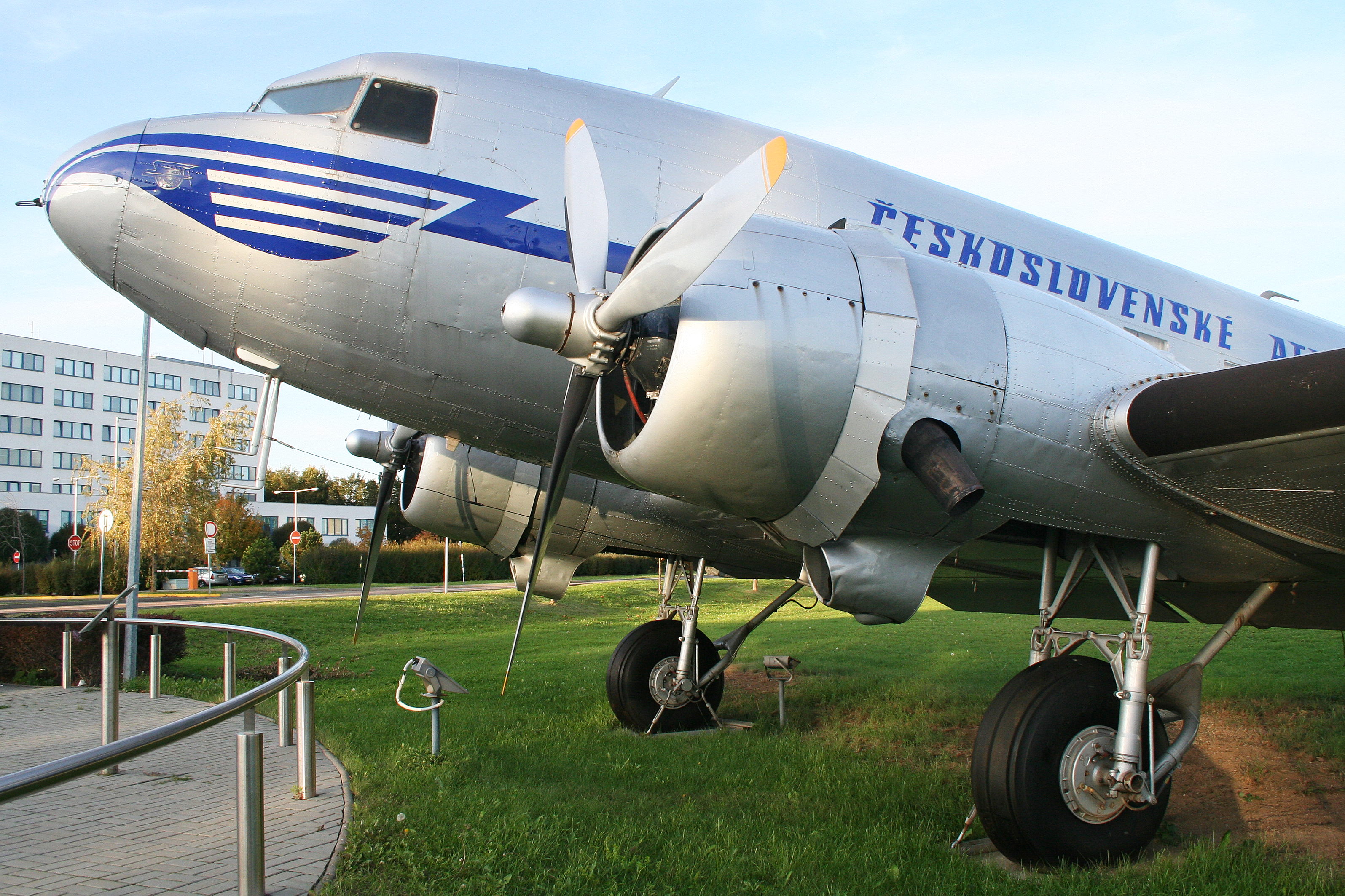 Preserved outside the CSA HQ building in the middle of Prague Airport. This is actually a pre-war DC-3-229, msn1995, which was delivered new to Panagra as NC18119 on 19th October 1937. It saw no military service and was eventually flown to Prague for preservation in June 1991. Oddly enough, the original 'OK-XDM' still exists and is on display at a museum in France! Prague Airport, Czech Republic. 08-10-2012